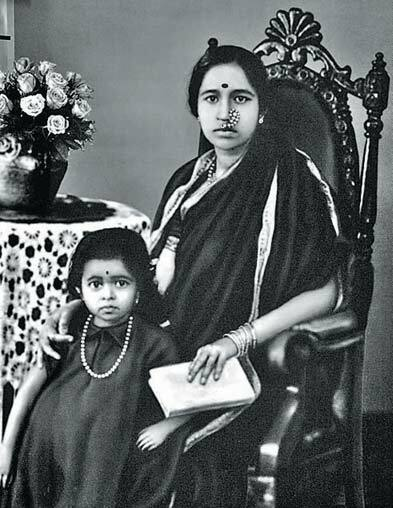 Gangubai Hangal (1913-2009) and daughter Krishna (c. 1929-2004)